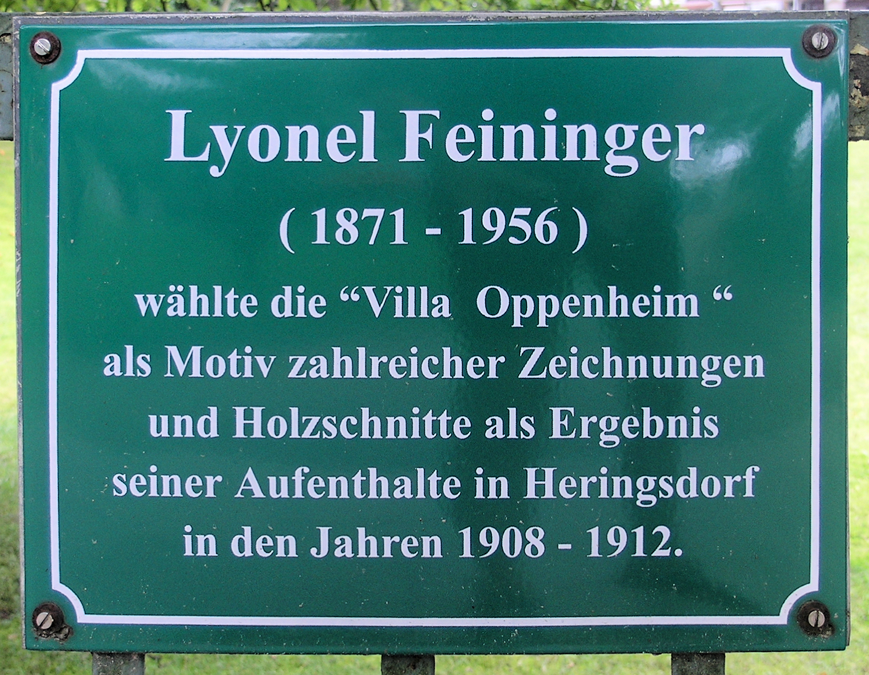 Memorial plaque, Lyonel Feininger, Dellbrückstraße 11, Heringsdorf, Germany Koordinate:53°57′9″N 14°10′17″E / 53.9525°N 14.17139°E